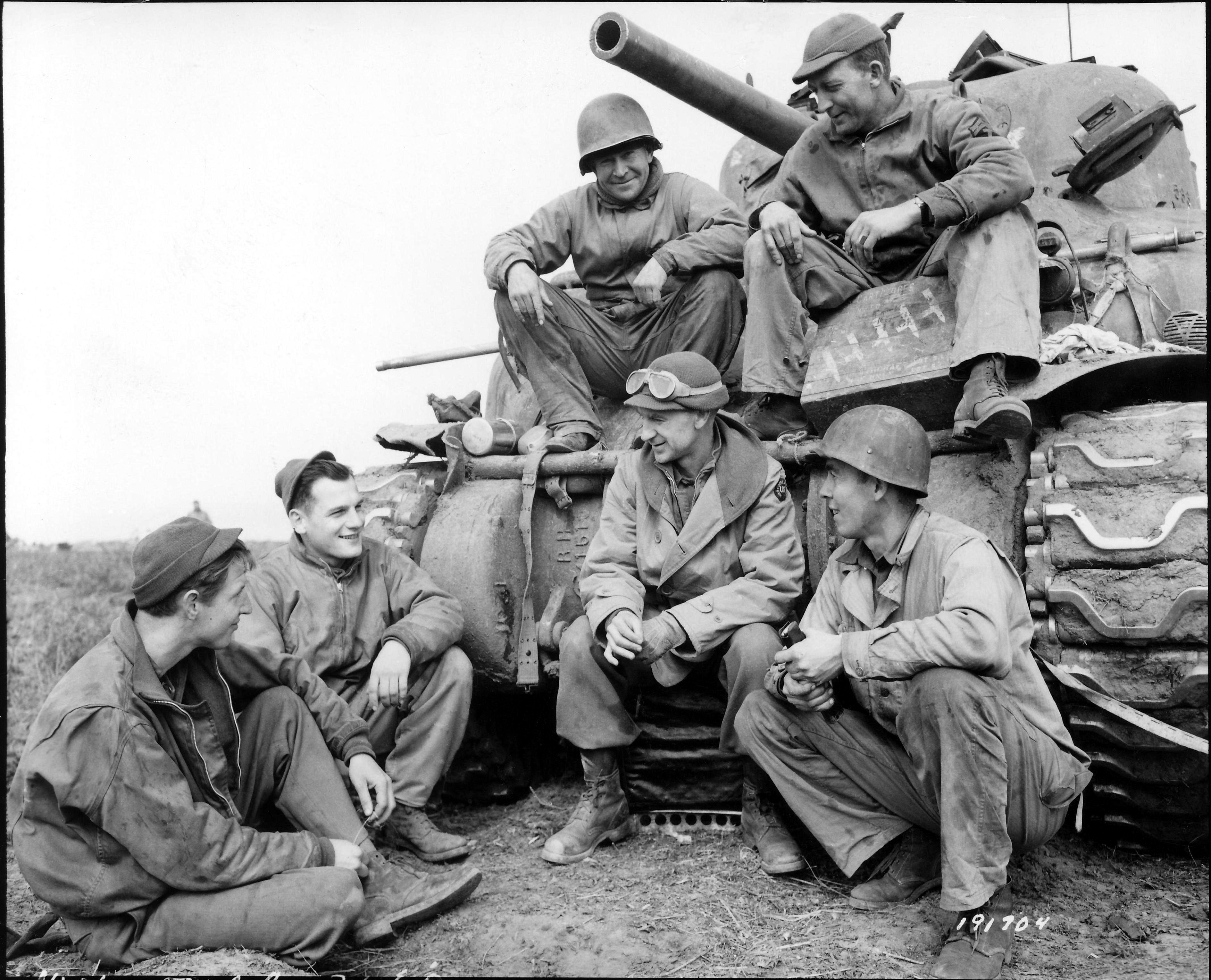 This is a picture from WWII of Ernie Pyle with a tank crew from the 191st Tank Battalion, US Army at the Anzio Beachhead in 1944.